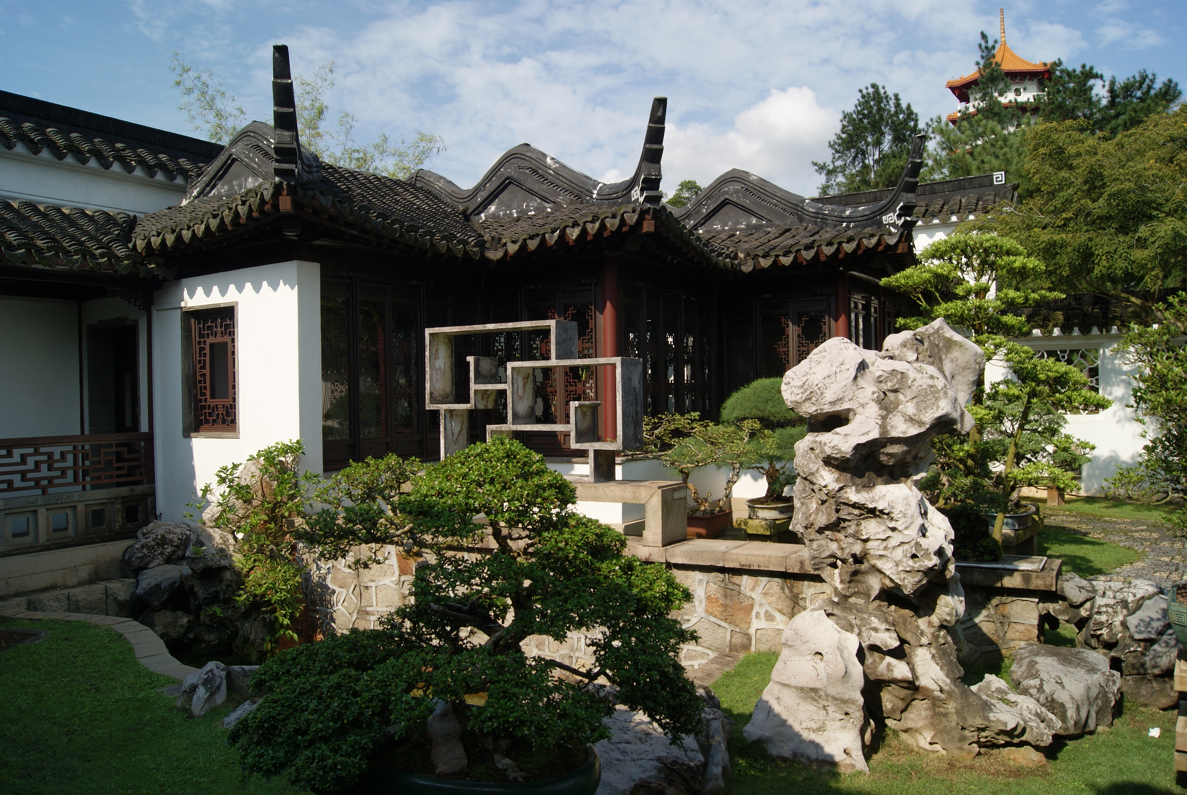 Bonsai Garden in Chinese Garden Singapore, October 2009